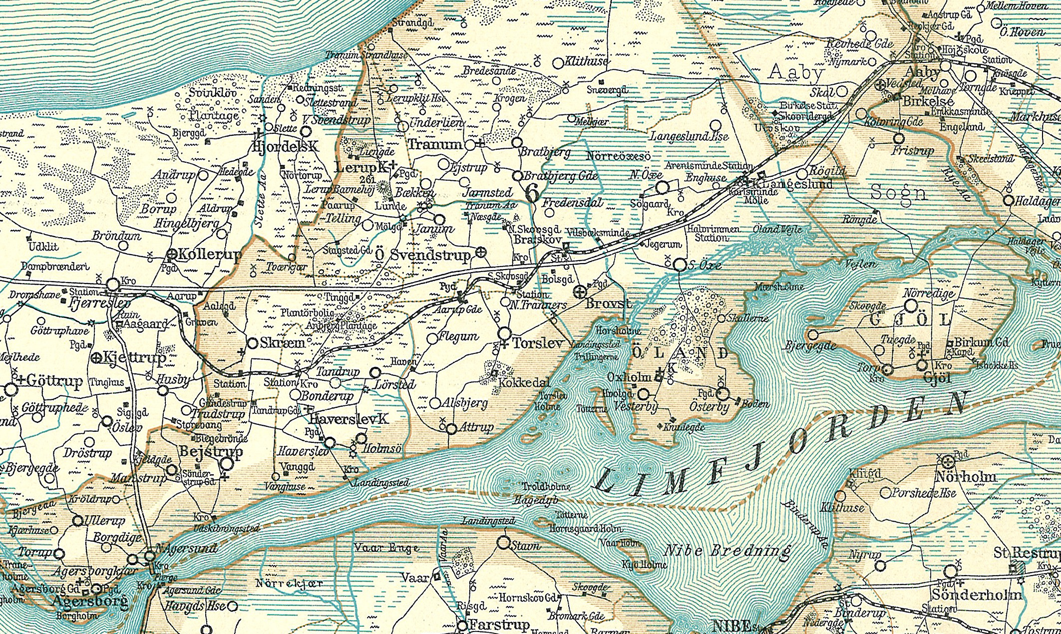 Map of Øster Han Herred in Hjørring County in Denmark